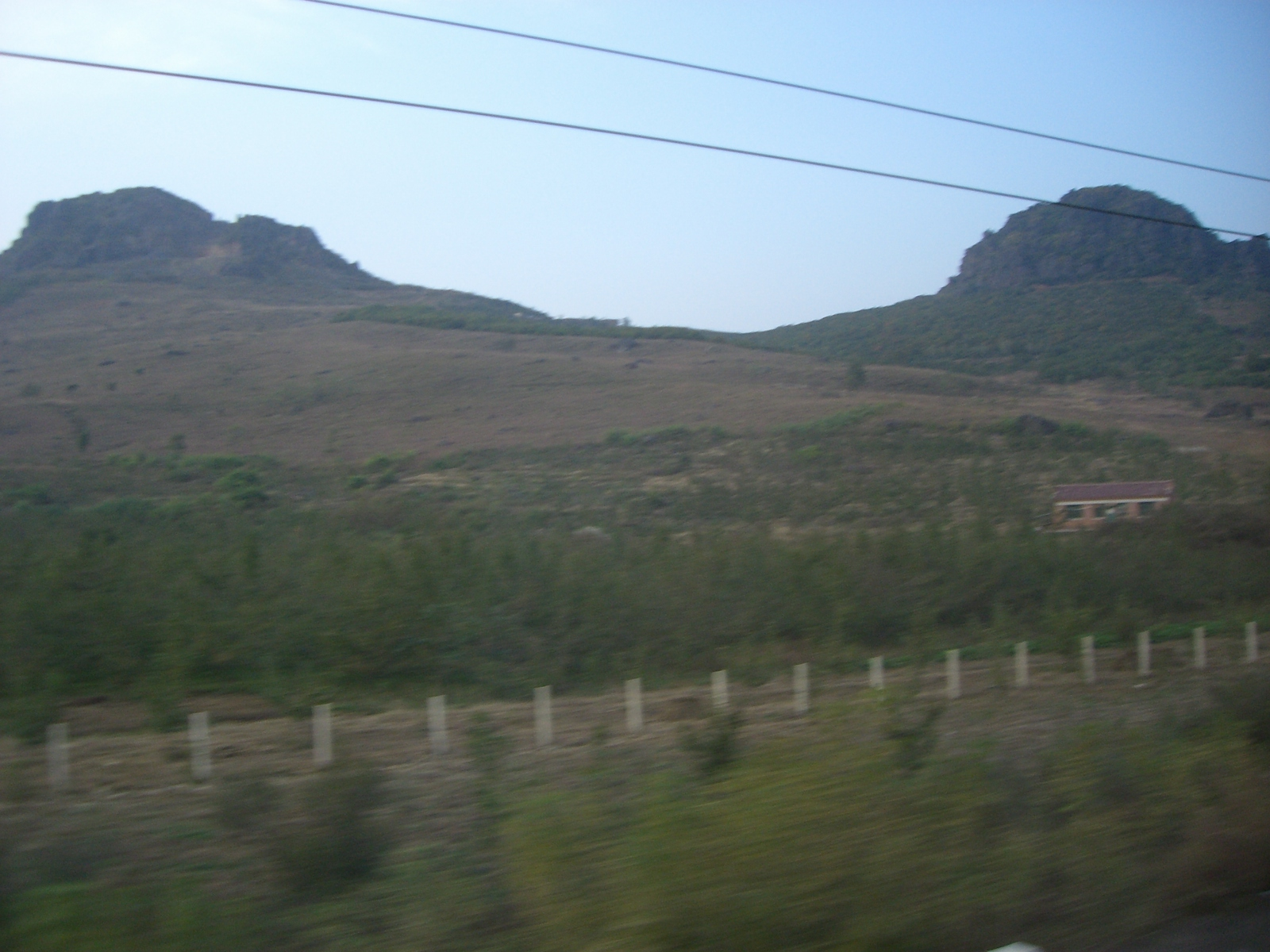 Twin mountains, which look like a saddle (鞍), in Anshan (鞍山), Liaoning, China, gave the city its name, that means Saddle Mountain.